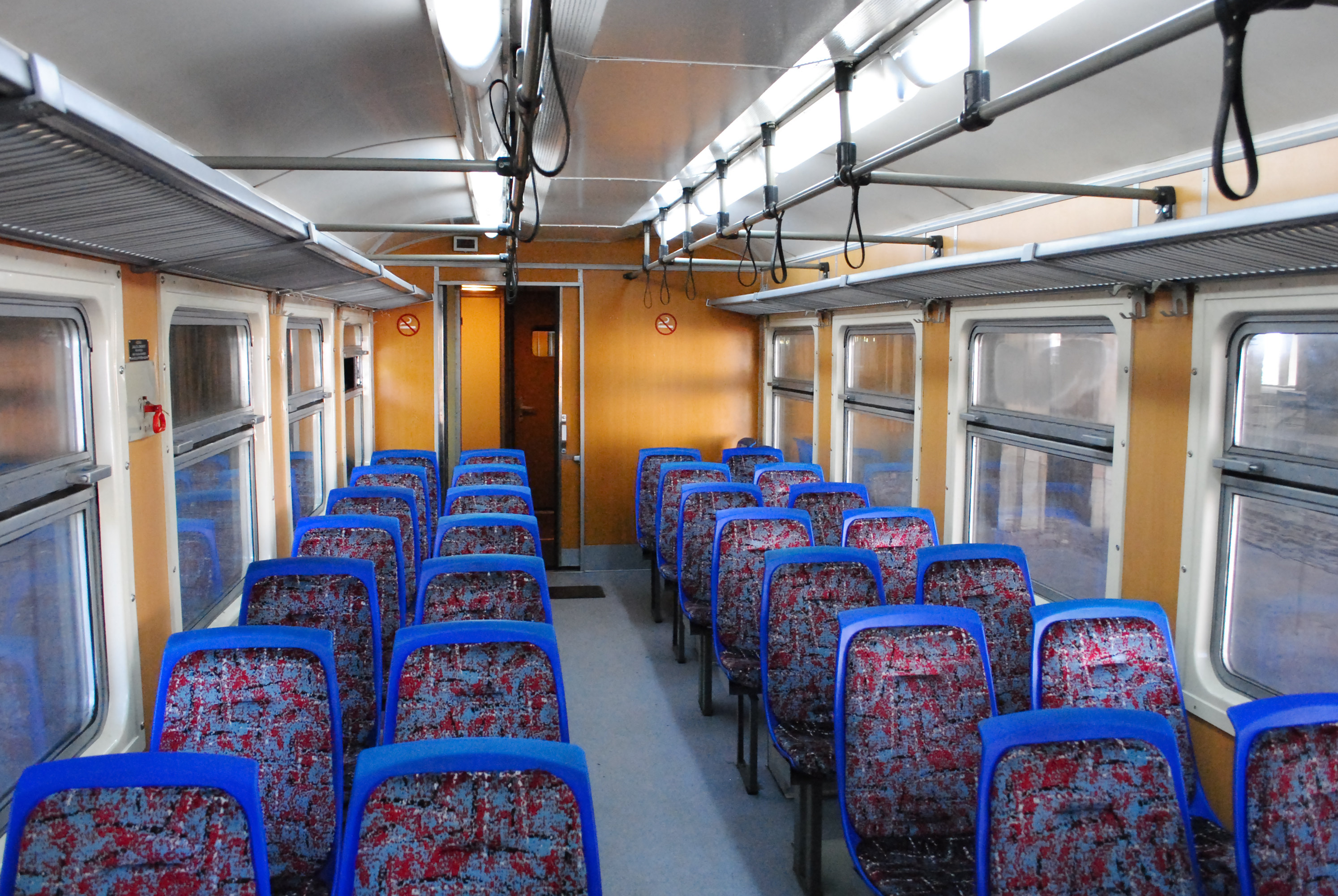 Interior of RVR